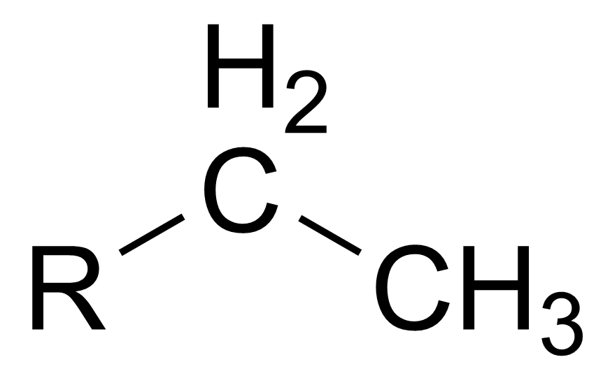 Comments High-resolution black/white .PNG made with ChemSketch and Photoshop — see WikiProject Chemistry - structure drawing for detailed instructions. Please drop me a note if you need the source file. Category:Chemical structures (Original text: Chemical structure of Ethyl group)